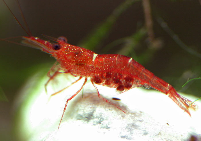 Orange Delight Shrimp (Caridina loehae) from Sulawesi, Indonesia. This is one of many different species from the island.